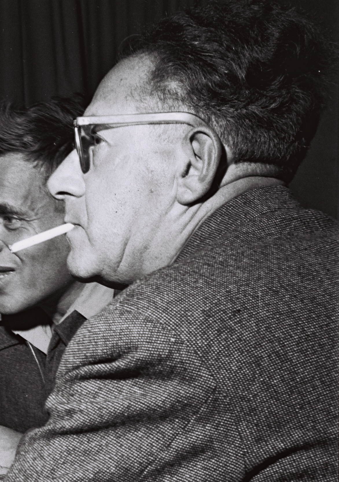 Menahem Bader